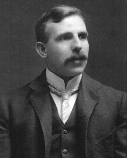 Cropped Image:Ernest_Rutherford.jpg